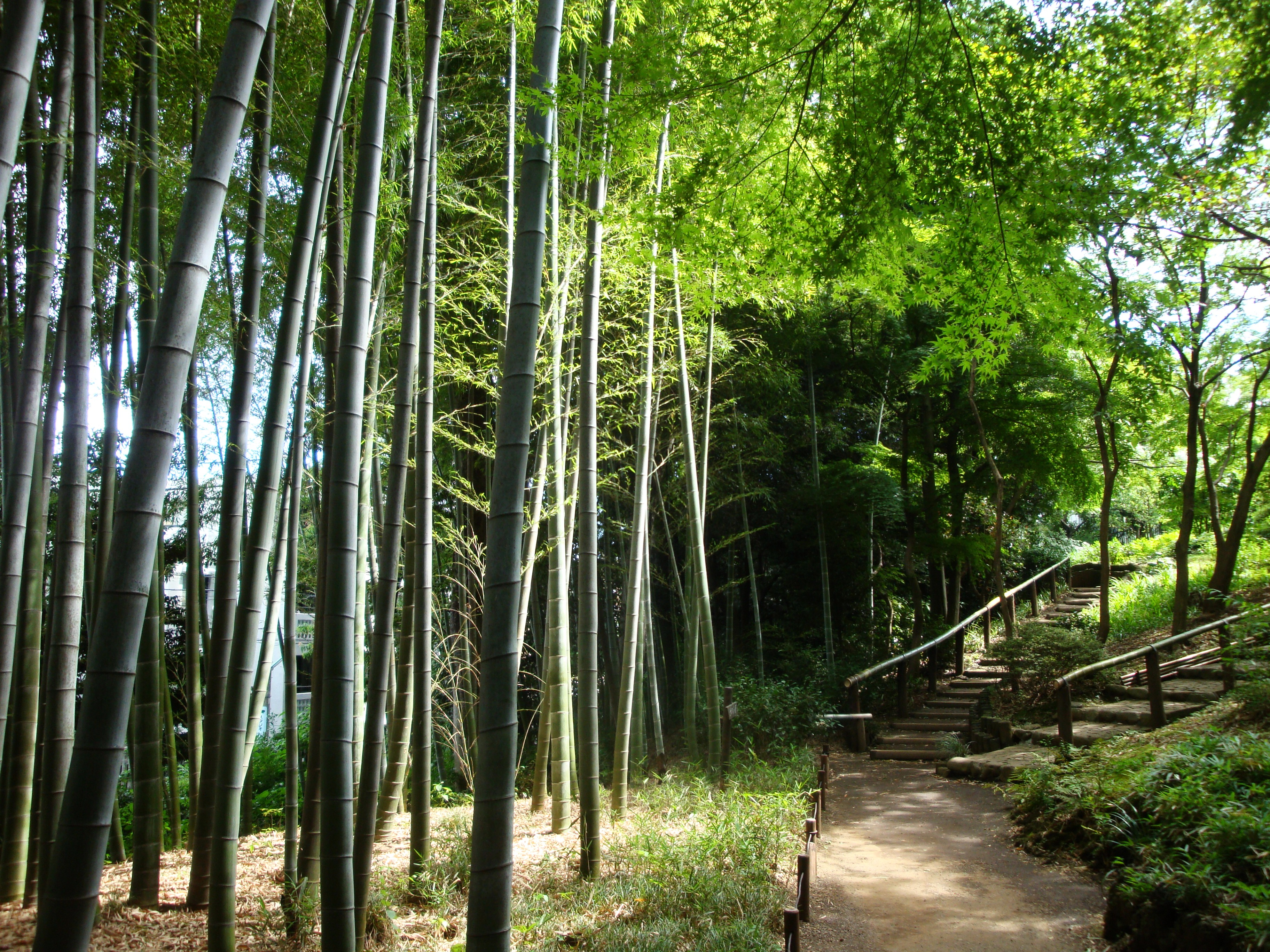 A bamboo forest in Tonogayato Garden. Tokyo